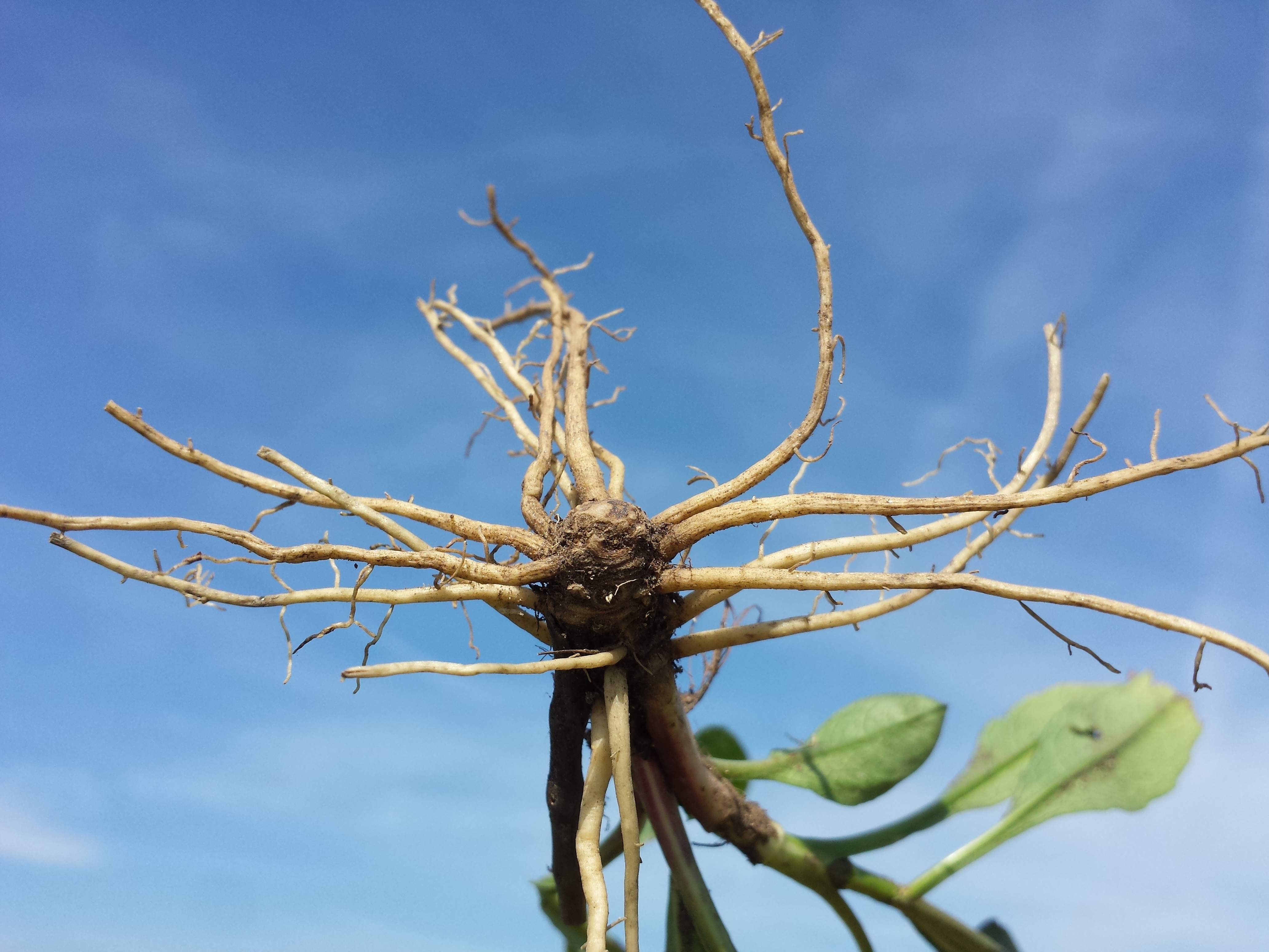 "Bitten off" rhizome Taxonym: Succisa pratensis ss Fischer et al. EfÖLS 2008 ISBN 978-3-85474-187-9 Location: next to Unterlembach, district Gmünd, Lower Austria - ca. 530 m a.s.l. Habitat: meadows